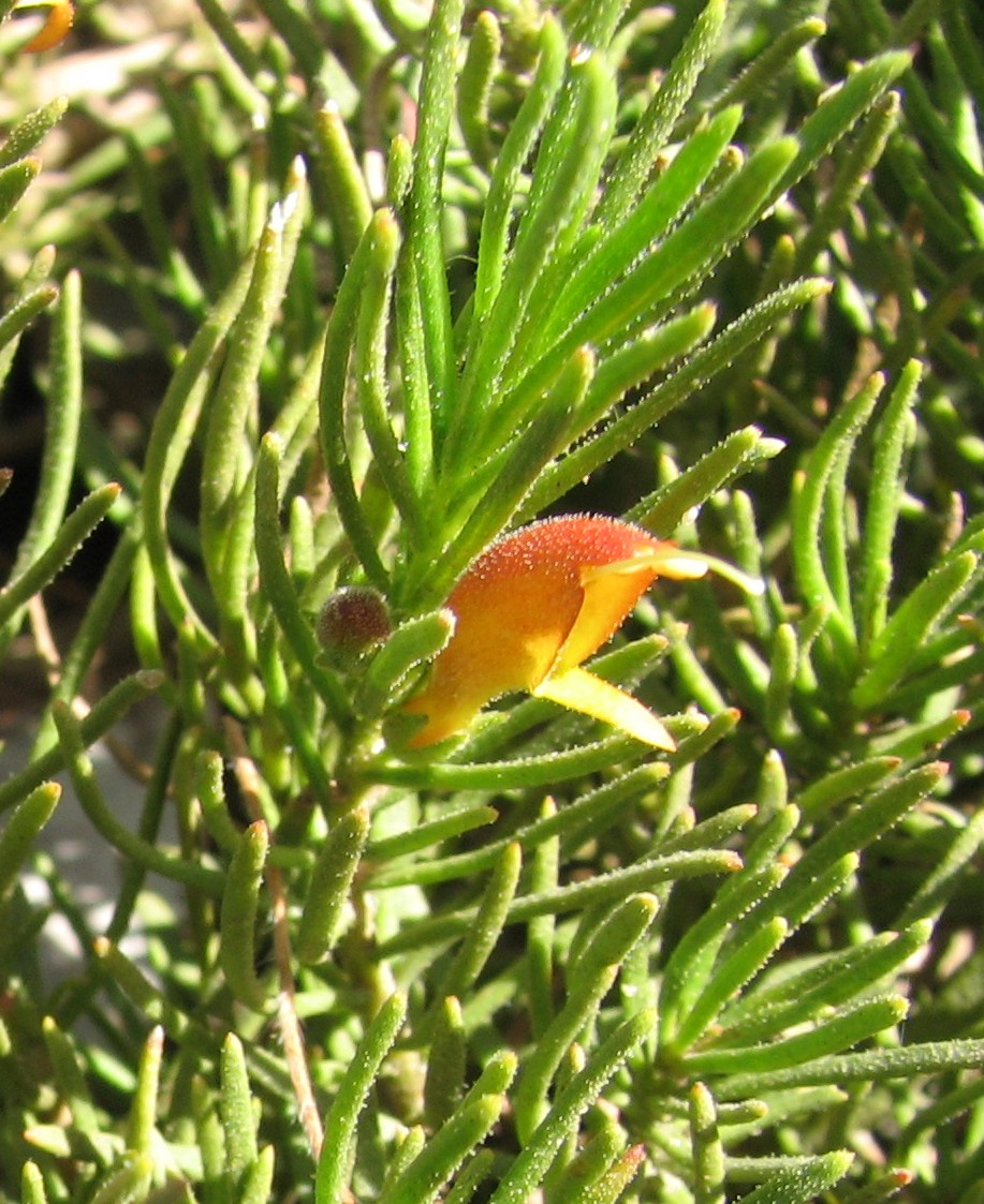 Eremophila_subteretifolia, Royal Botanic Gardens Cranbourne, Victoria, Australia